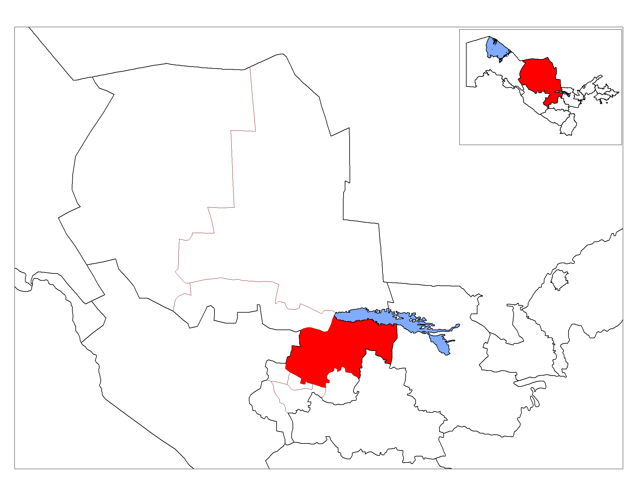 Location map of Nurota District in Navoiy Province, Uzbekistan